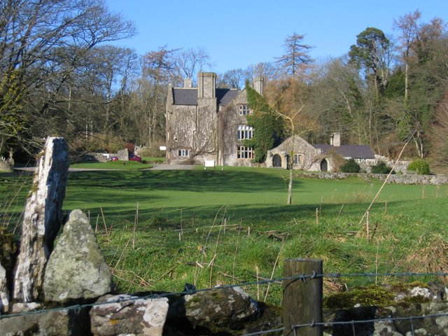 Bodidris Hall Hotel Looking towards the hotel over the gardens boundary wall.